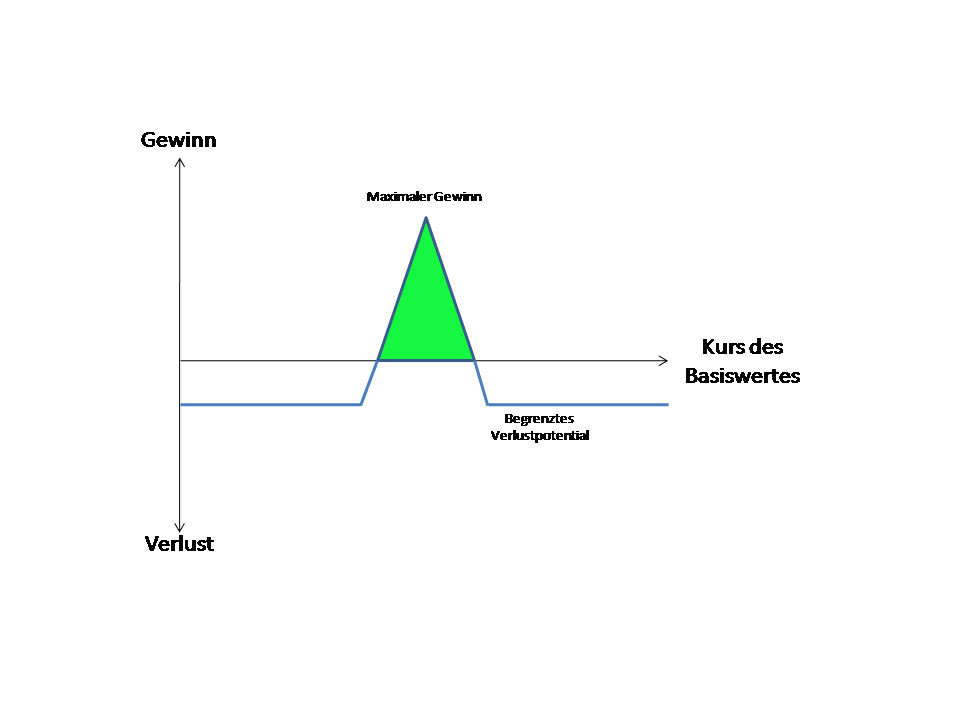 Long Butterfly Spread simplified